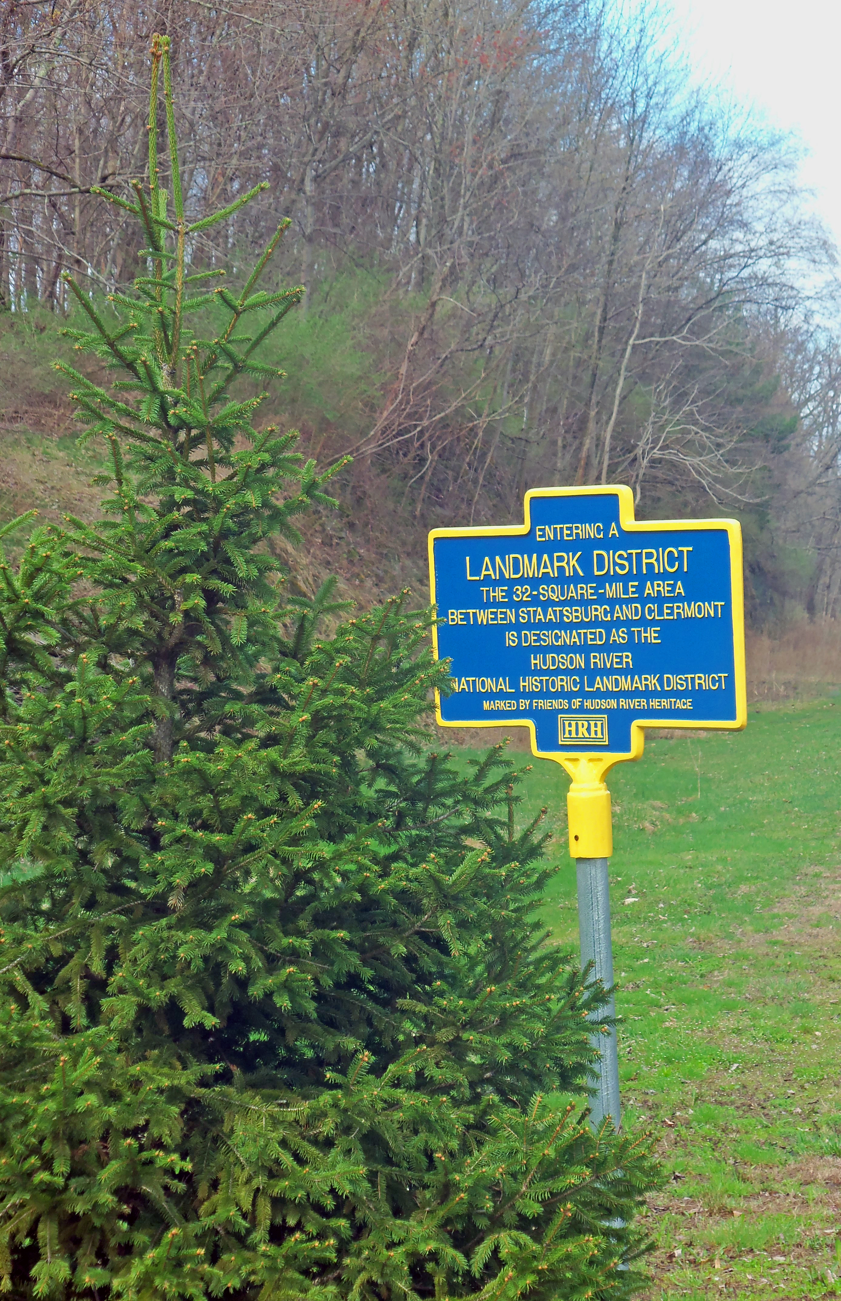 New York State historic marker for Hudson River Historic District along New York State Route 199 in Rhinebeck, NY, USA. This is one of the few acknowledgements of the 36-square-mile district on the ground.